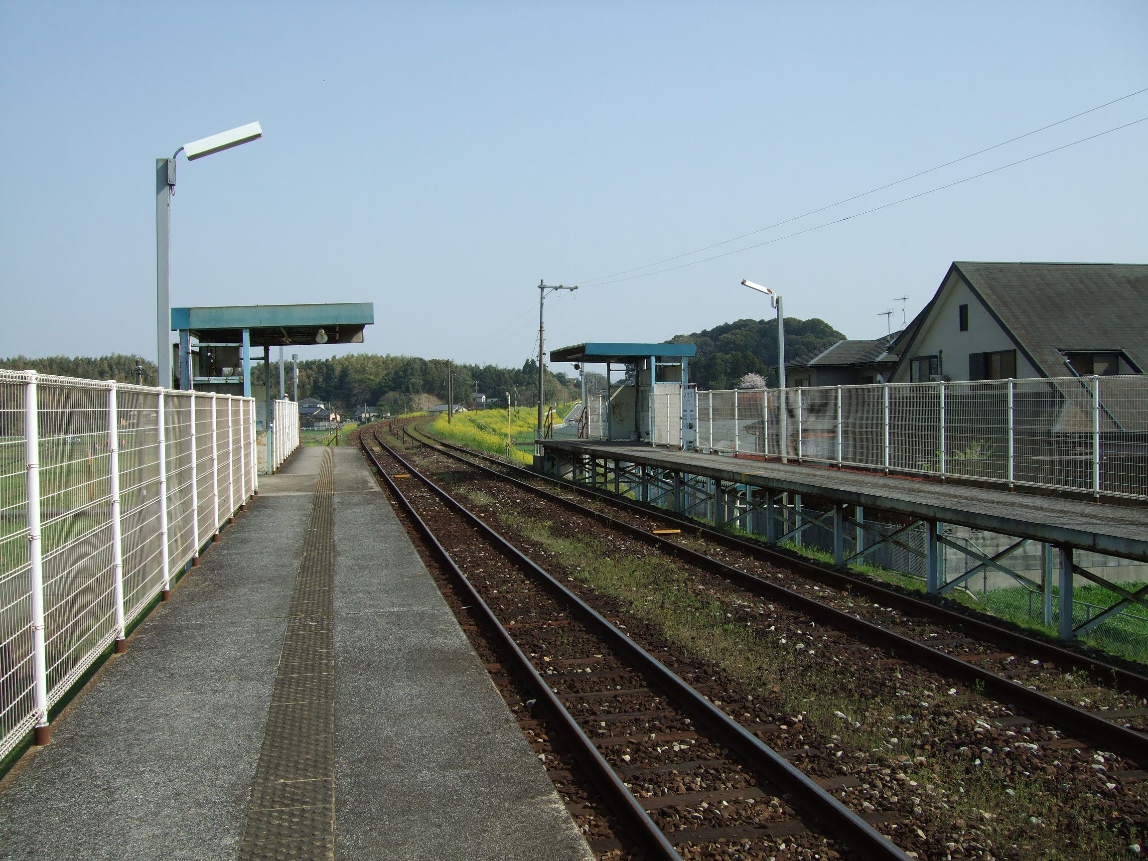 Ichiba Station, Ita Line, Heisei Chikuho Railway, Fukuchi Town, Fukuoka, Japan.